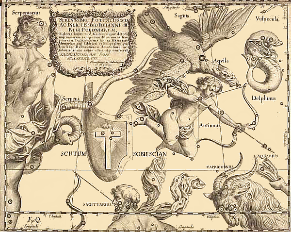 The Scutum constellation from Uranographia by Johannes Hevelius. The view is mirrored following the tradition of celestial globes, showing the celestial sphere in a view from "ouside"